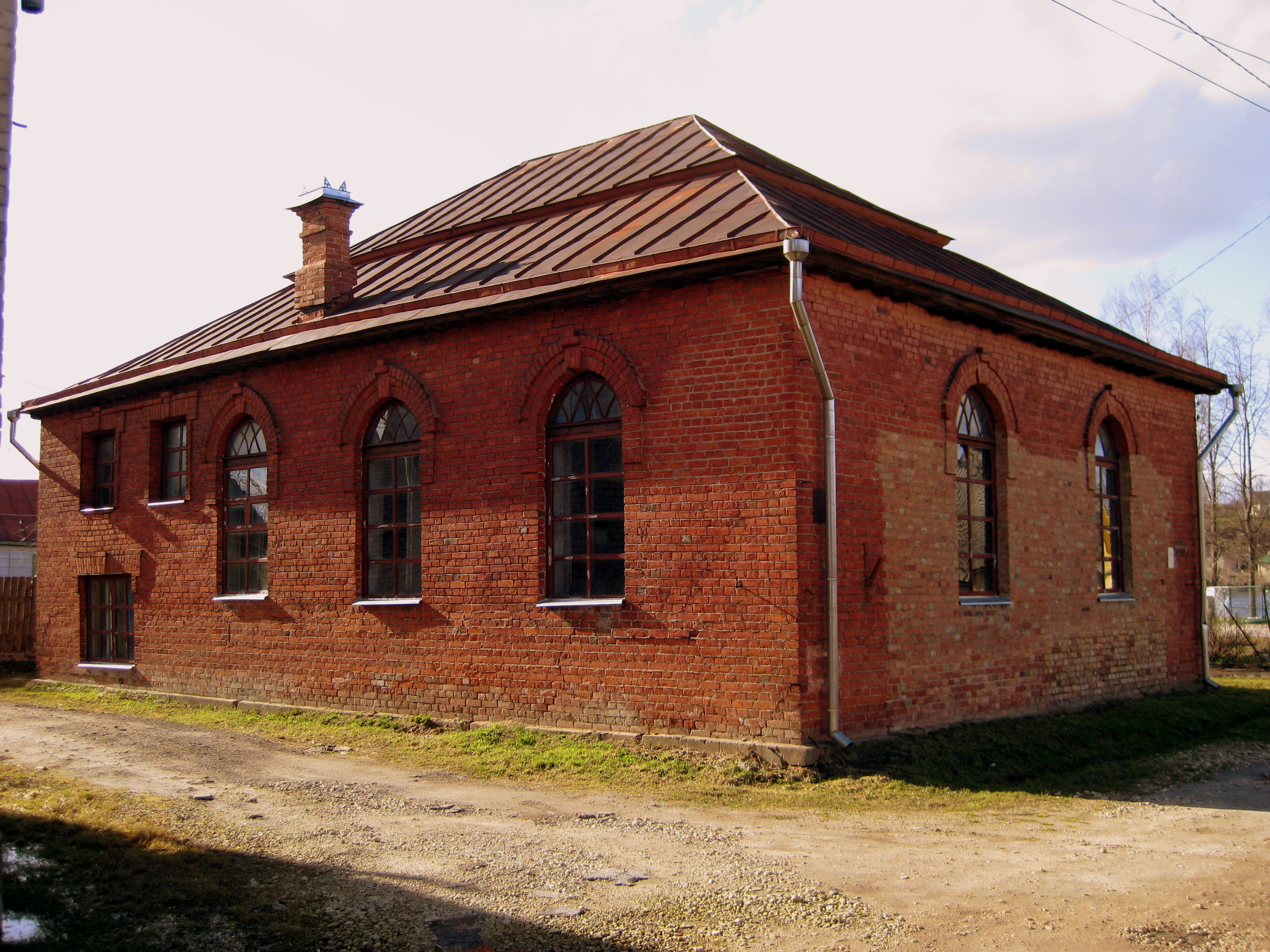 Old synagogue on Stacijas iela, Ludza (built in 1800).